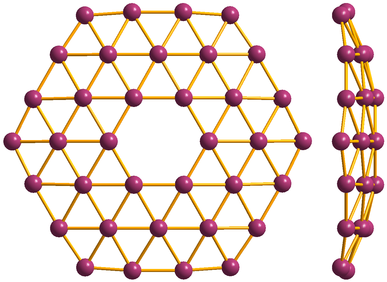 Neutral C6v B36 borophene (front and side view), based on atomic coordinates from